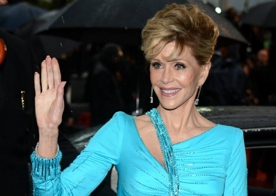 Jane Fonda at the Cannes Film Festival